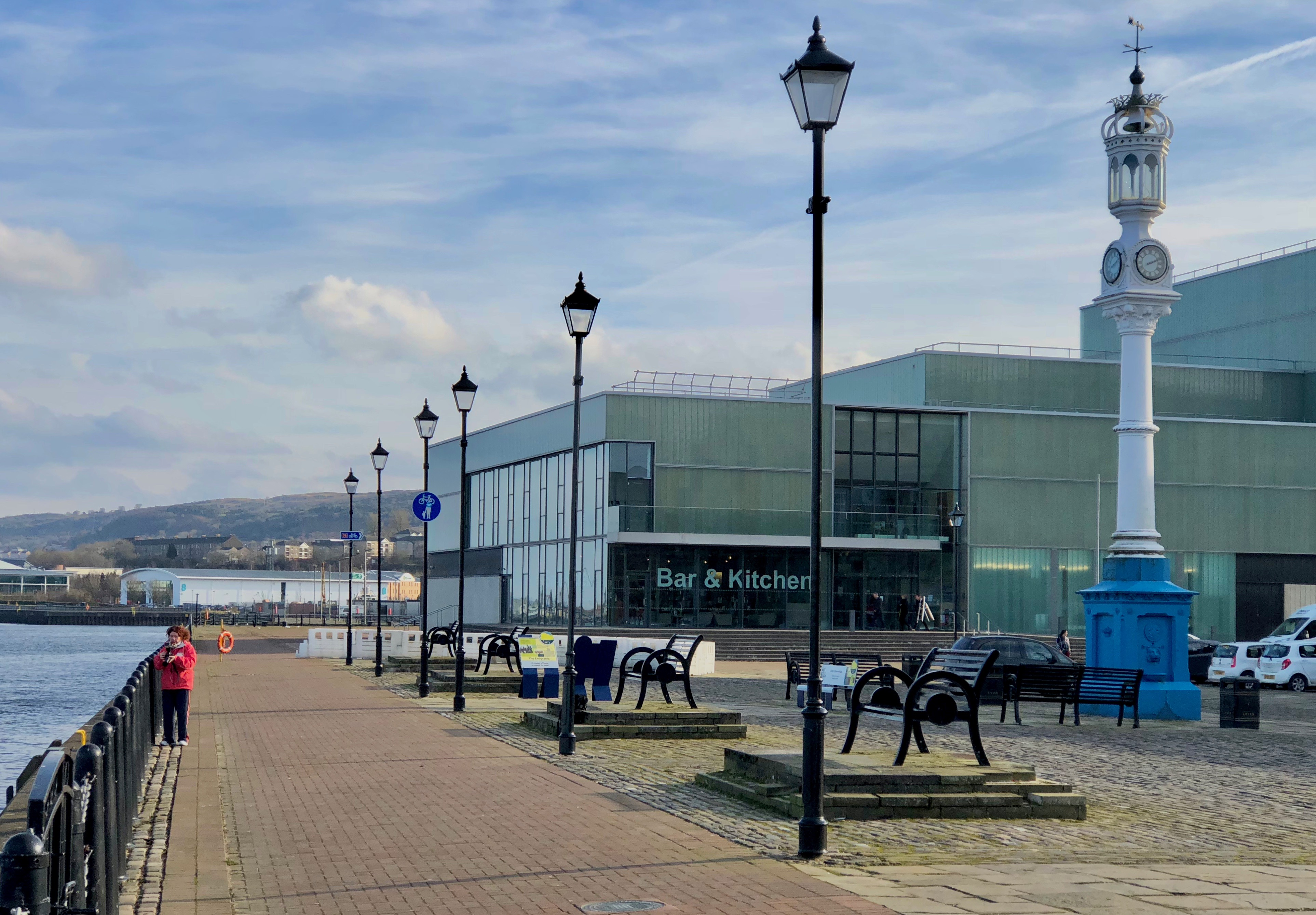 The Beacon Arts Centre at Customhouse Quay on the waterfront of Greenock in Scotland, from the River Clyde quayside, with "The Beacon" cast-iron clock tower and lantern to the right, made in 1868 by Rankin & Blackmore Ltd to a design by Greenock artist William Clark.